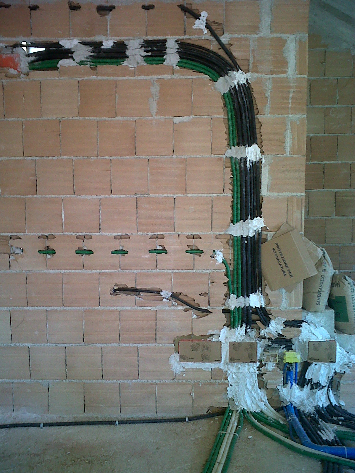 Electrical "Ducting" system in an Apartment Building.